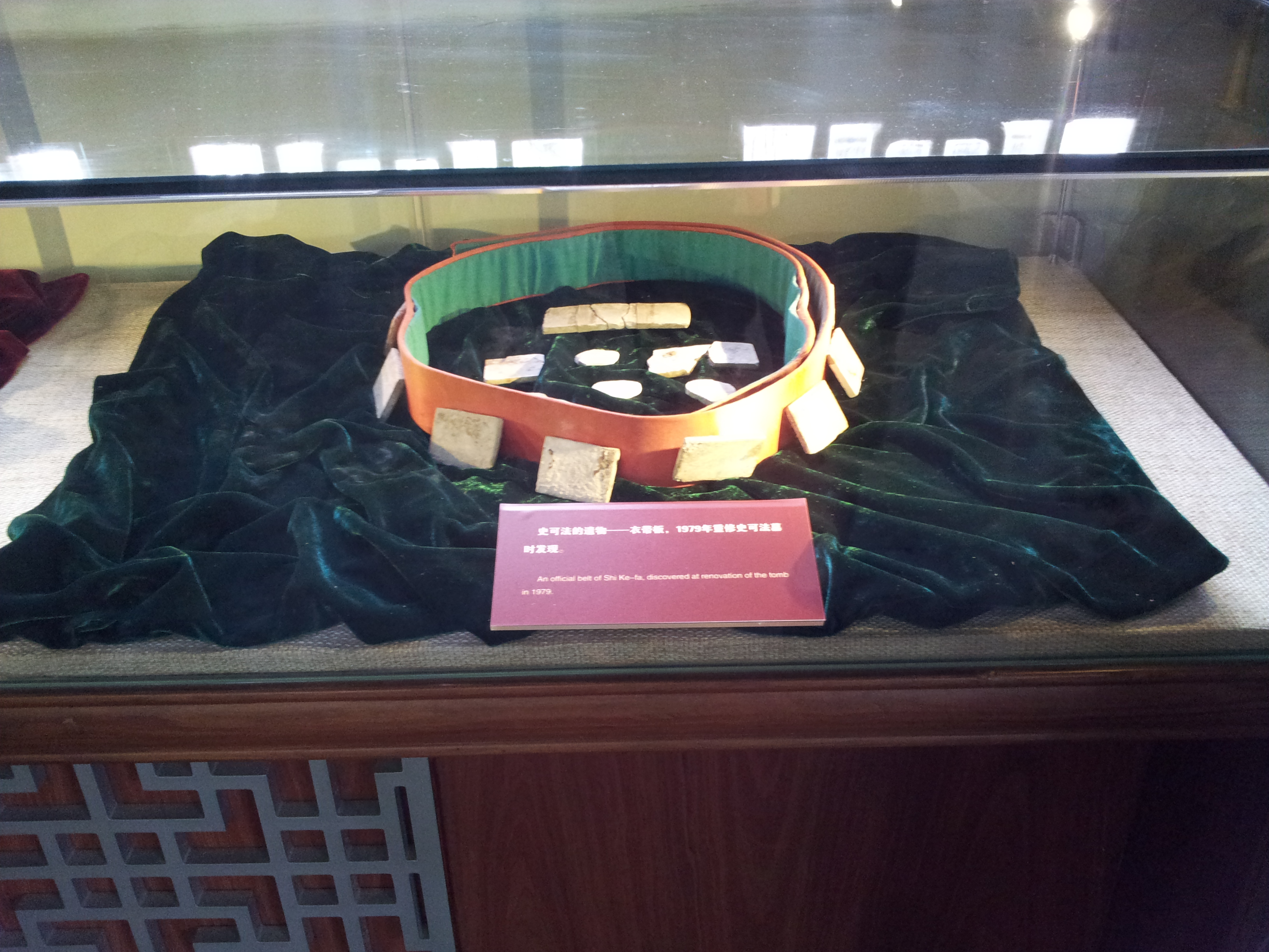 Belt of Shi Ke Fa